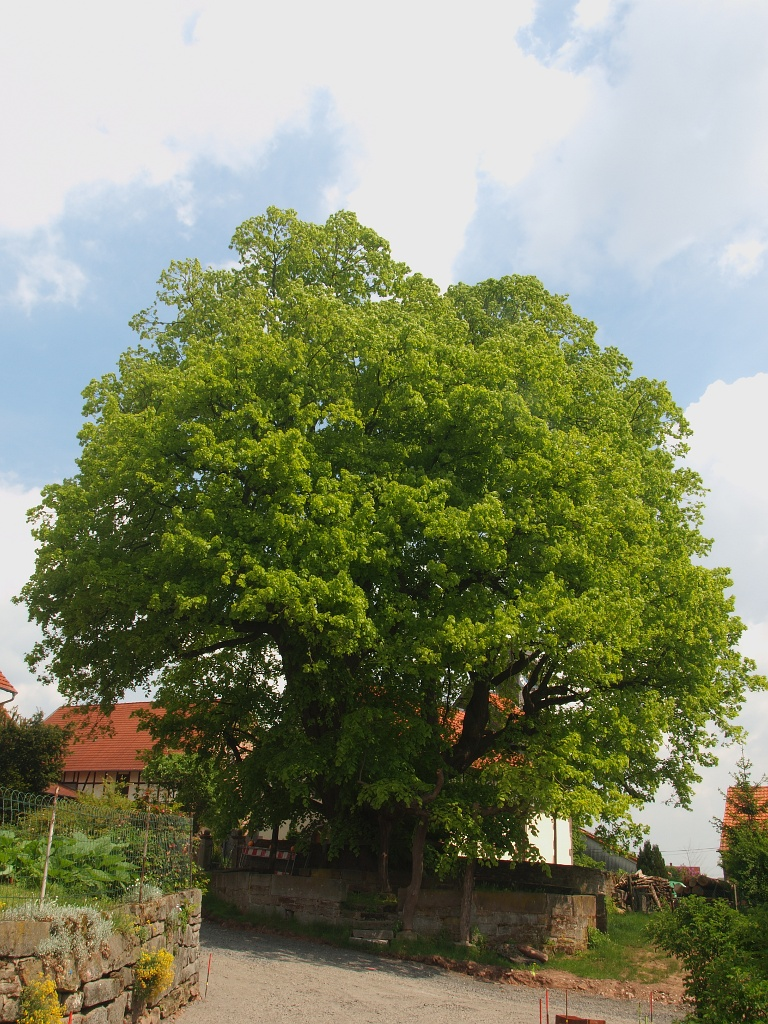 Doom linden in Schenklengsfeld-Erdmannrode in front of the church.